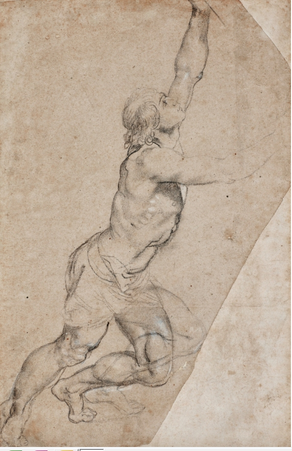 NUDE STUDY OF A YOUNG MAN WITH RAISED ARMS Black chalk, heightened with white; the two right corners cut; bears inscription in brown ink, on made up lower right corner: Rubens 491 by 315 mm; 19 3/8 by 12 3/8 in PROVENANCE Jacob de Wit (1695-1754), Amsterdam, probably his sale, Amsterdam, de Leth et al, 10-11 March 1755, boek C, in numbers 21-27; Dirk Versteegh (1751-1822), Amsterdam, his sale, Amsterdam, de Vries et al, 3 November 1823; Sir Thomas Lawrence (1769-1830), London; from whose estate acquired by Samuel Woodburn (First Woodburn/Lawrence exhibition, 1835, no. 27); from whom acquired in February 1838 by Prince William of Orange, later King William II of the Netherlands (1792-1849), his sale, The Hague, de Vries/Roos/Brondgeest, 12-20 August 1850, lot 303 ('RUBBENS. (P.P.) Figure académique d'un homme. Dessin largement exécuté à la pierre d'Italie; d'un beau faire'; bought back for the family by Brondgeest), by inheritance to the present owners